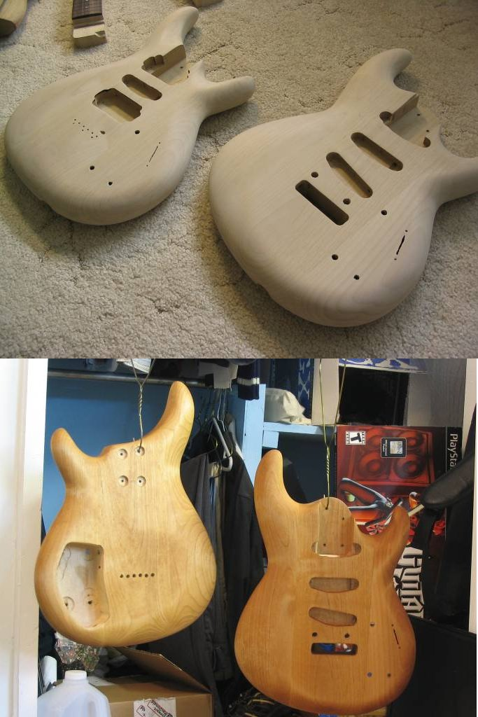 Alder guitar bodies, with and without polymerized tung oil to show the color it imparts.